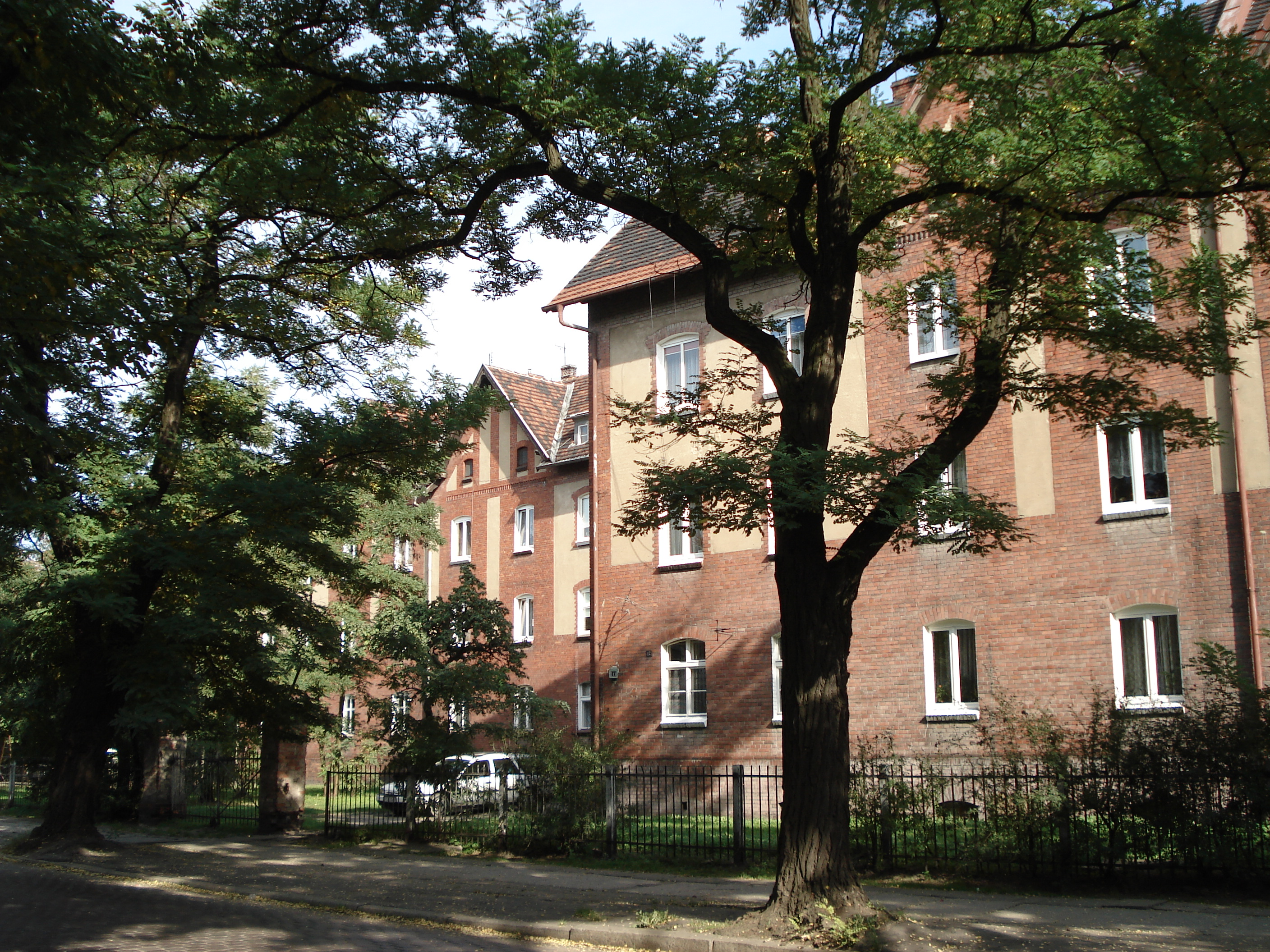 Houses of the Railway workers, Kolejowa Street in Poznań